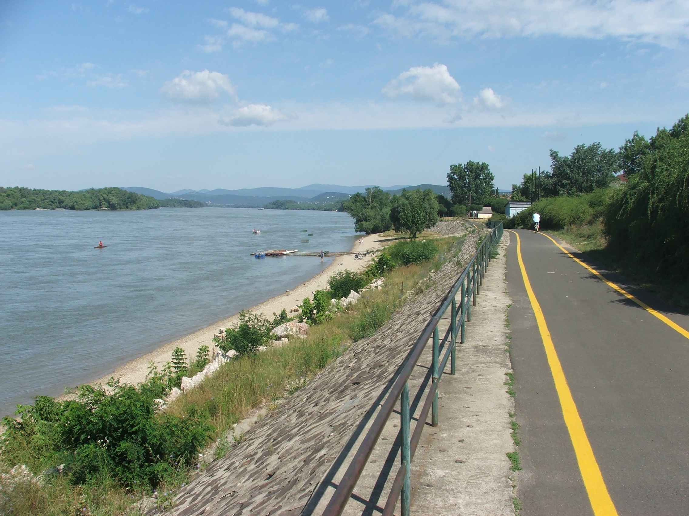 The Danube-Bikeway near Vác, Hungary